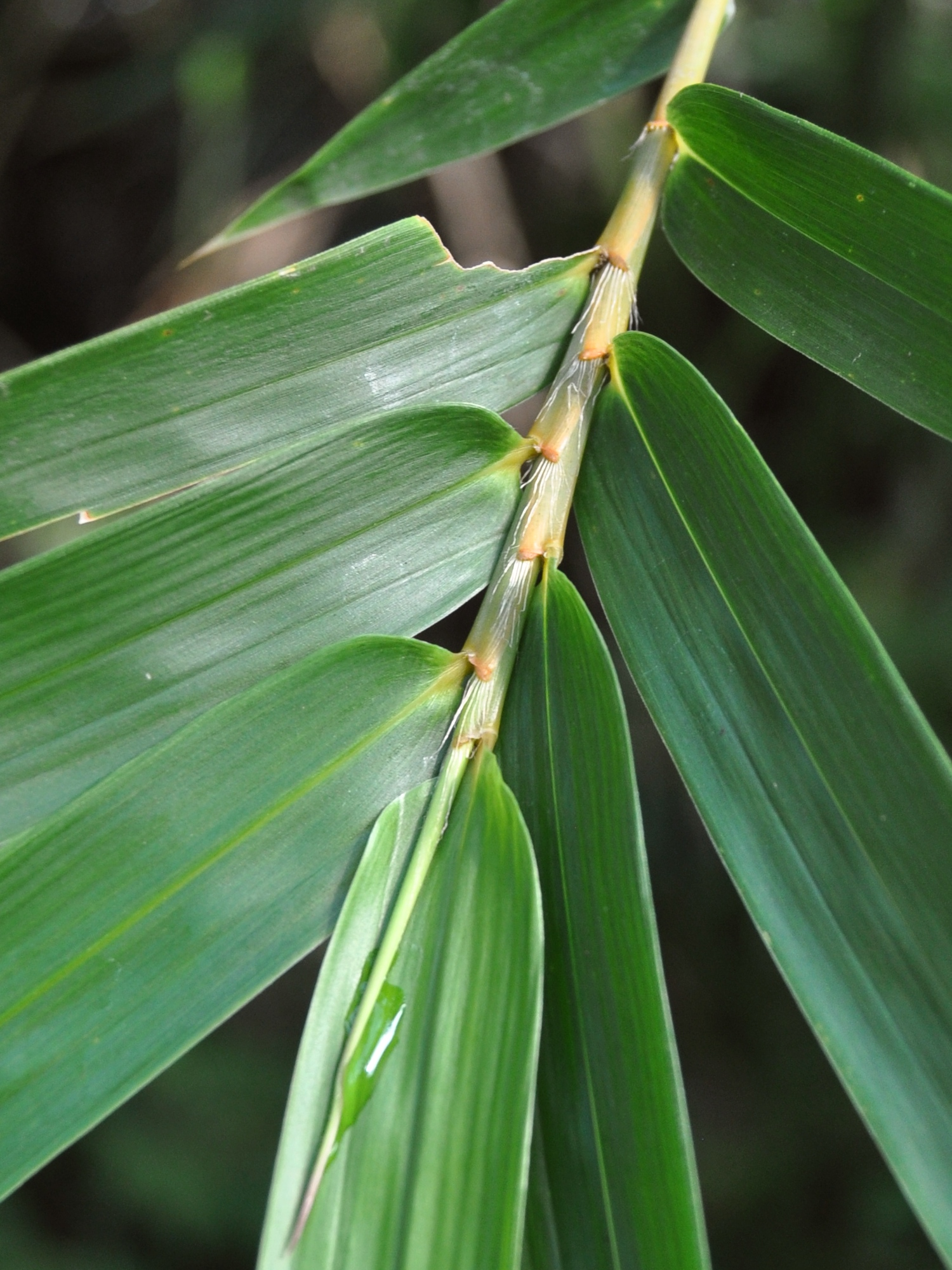 Chinese dwarf bamboo, Bambusa multiplex; close up of leaf sheaths. From Bogor, West Java, Indonesia.